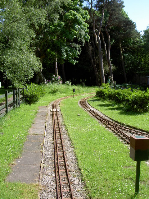 Royden Park Miniature Railway